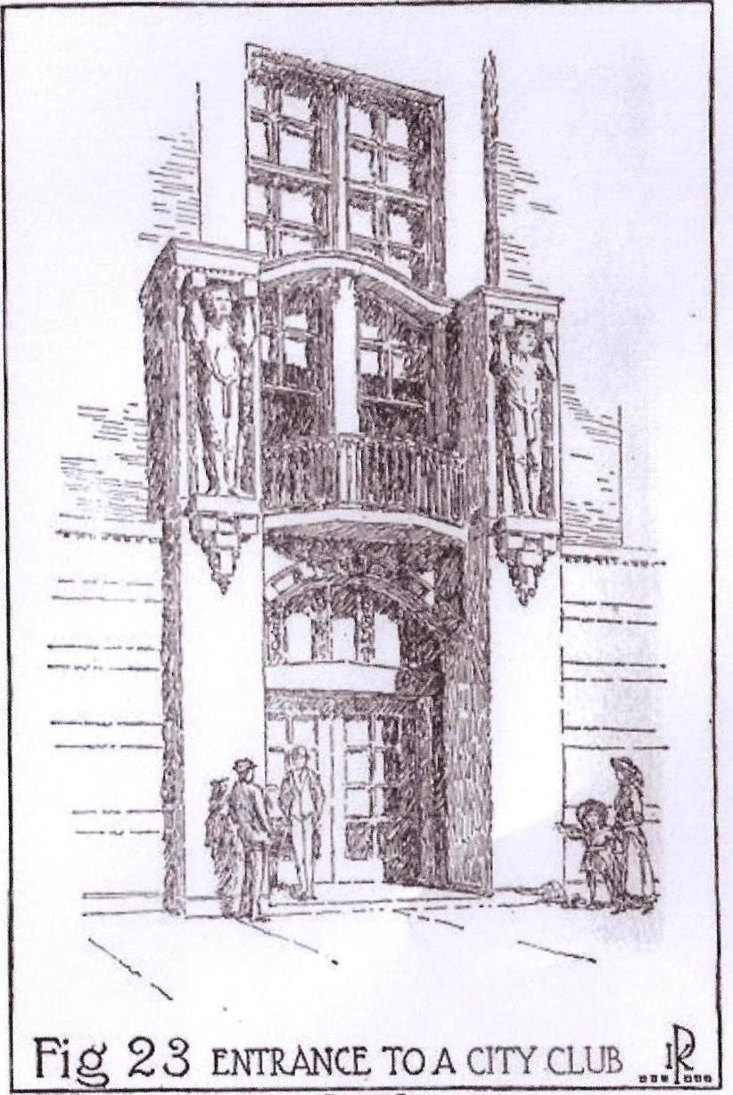 Architectural drawing of the arched entrance to the City Club in Chicago